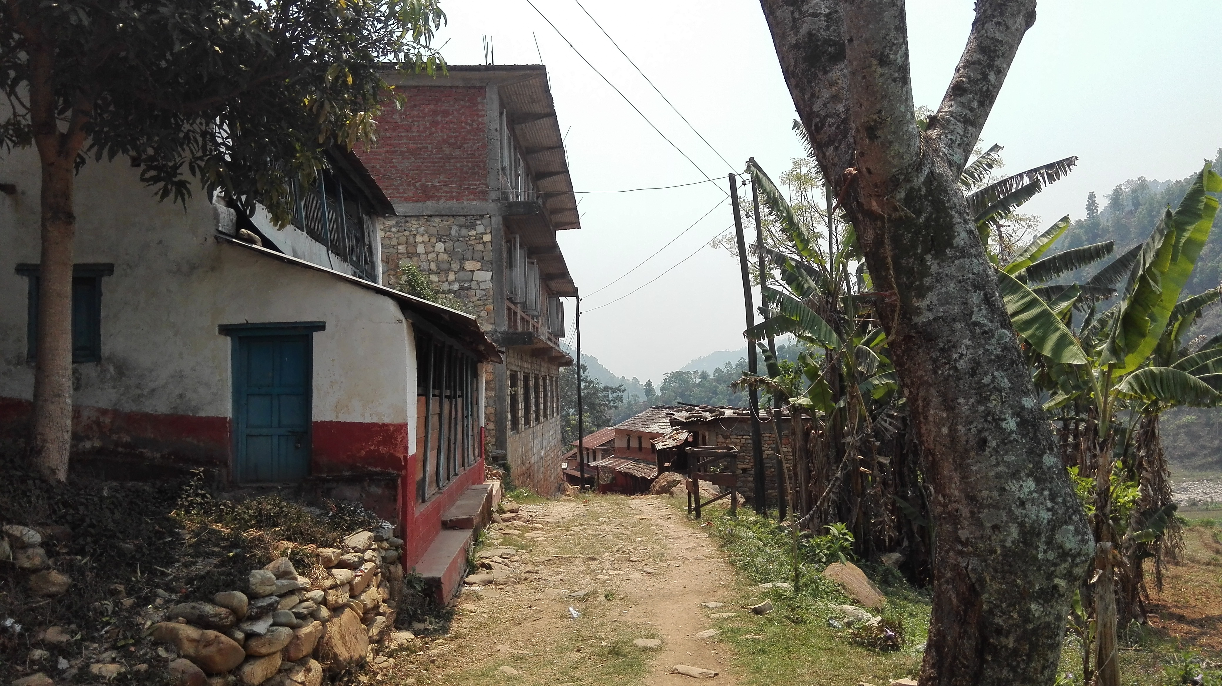 Once a busy trade route, now observes very few local travellers.